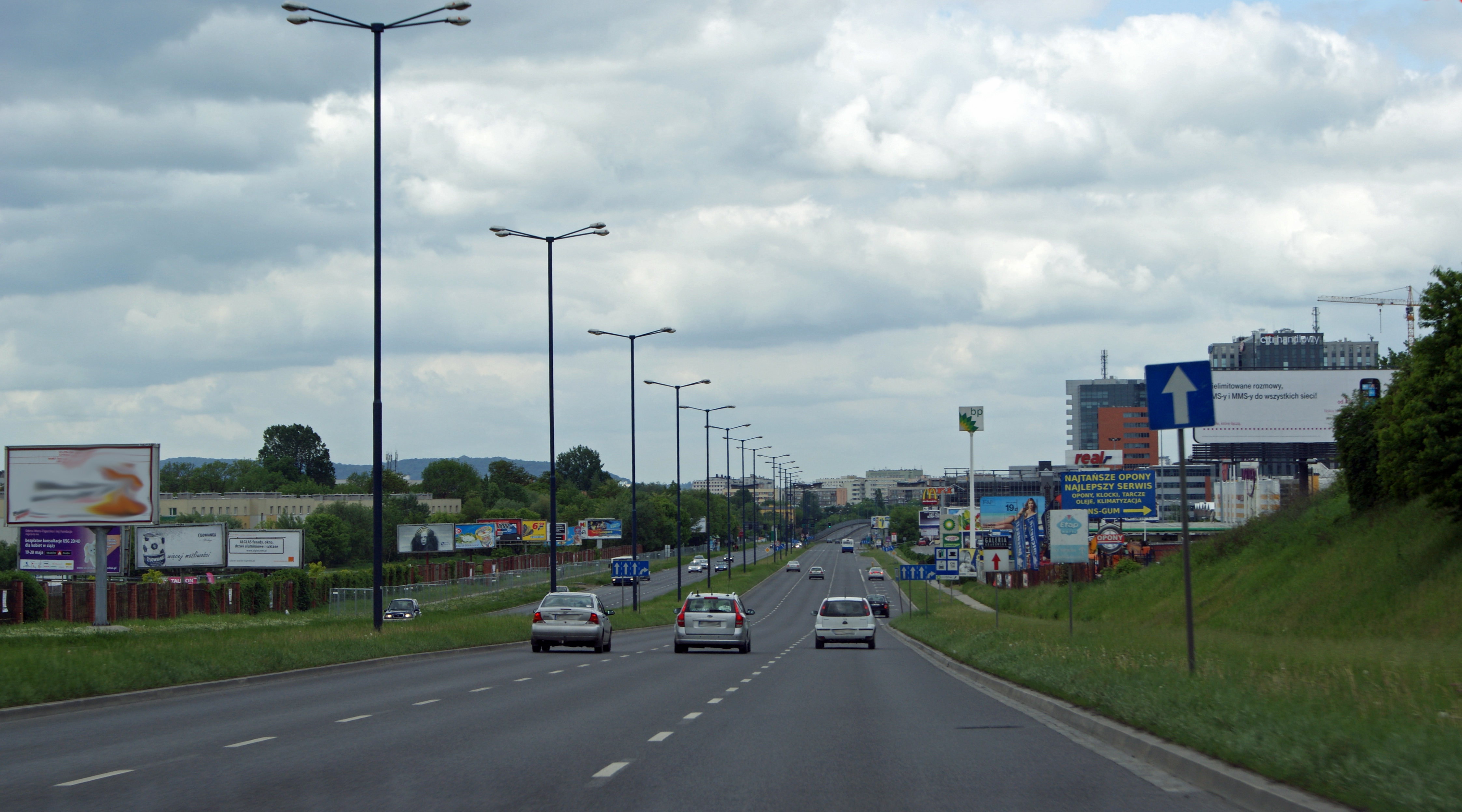 Gen. Bor-Komorowski Av (view to W), Krakow, Poland